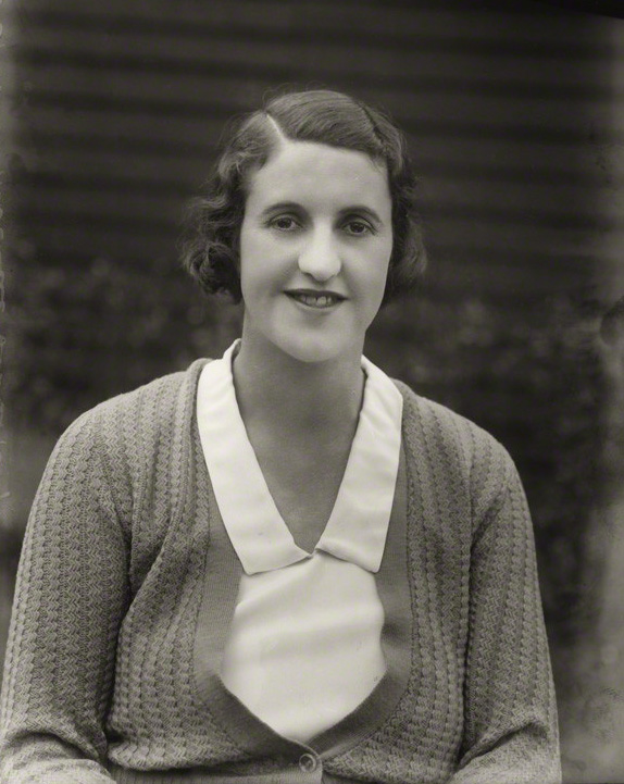 English tennis player Margaret ('Peggy') Amy Saunders (later Michell) by Bassano, whole-plate glass negative, May 1932